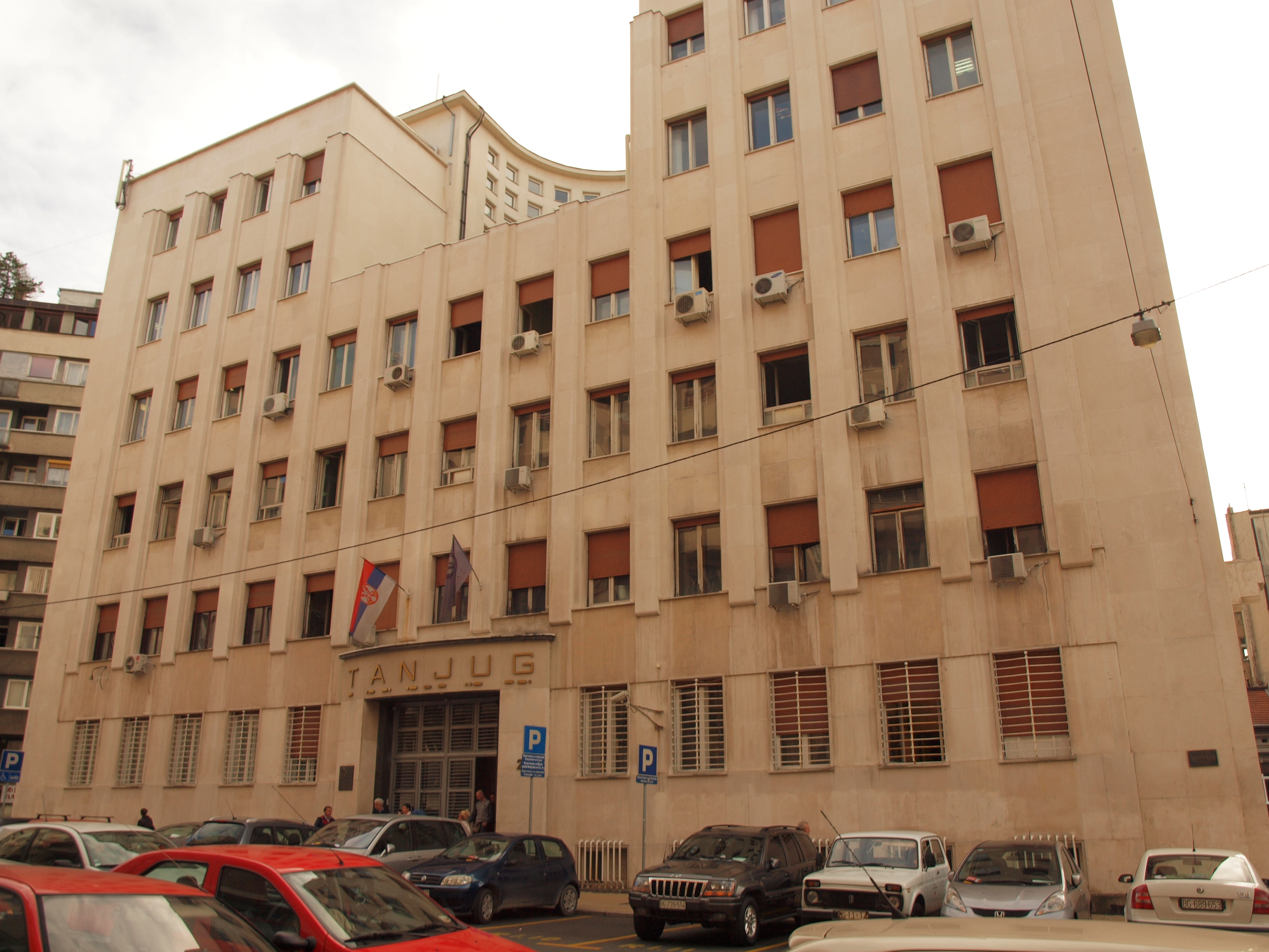 T. u. B.